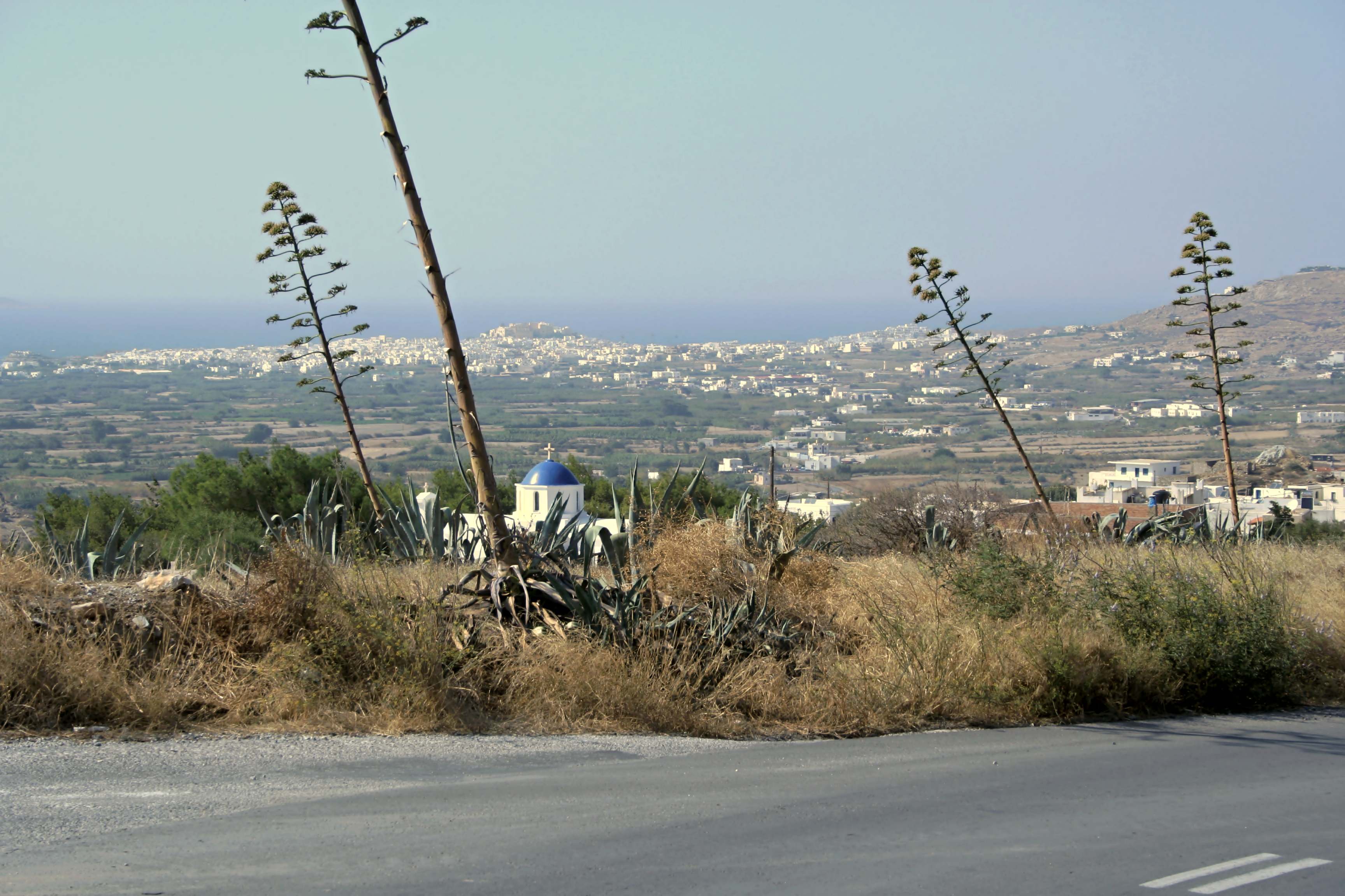 Huge agave between Galanado village and Town of Naxos.